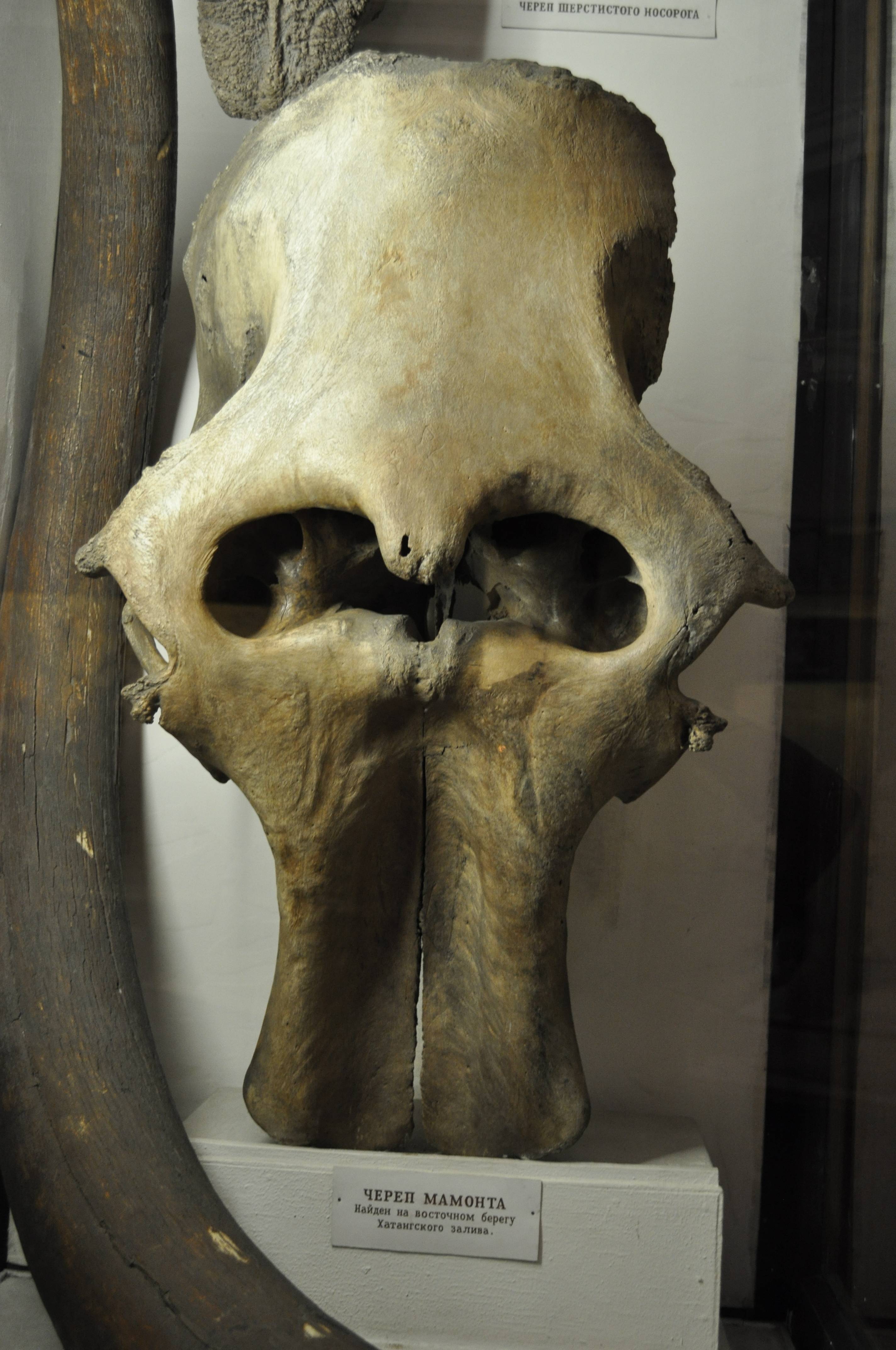 Mammuthus skull was found on the eastern shore of the Khatanga Bay, Russia. Collection of the Russian State Arctic and Antarctic Museum